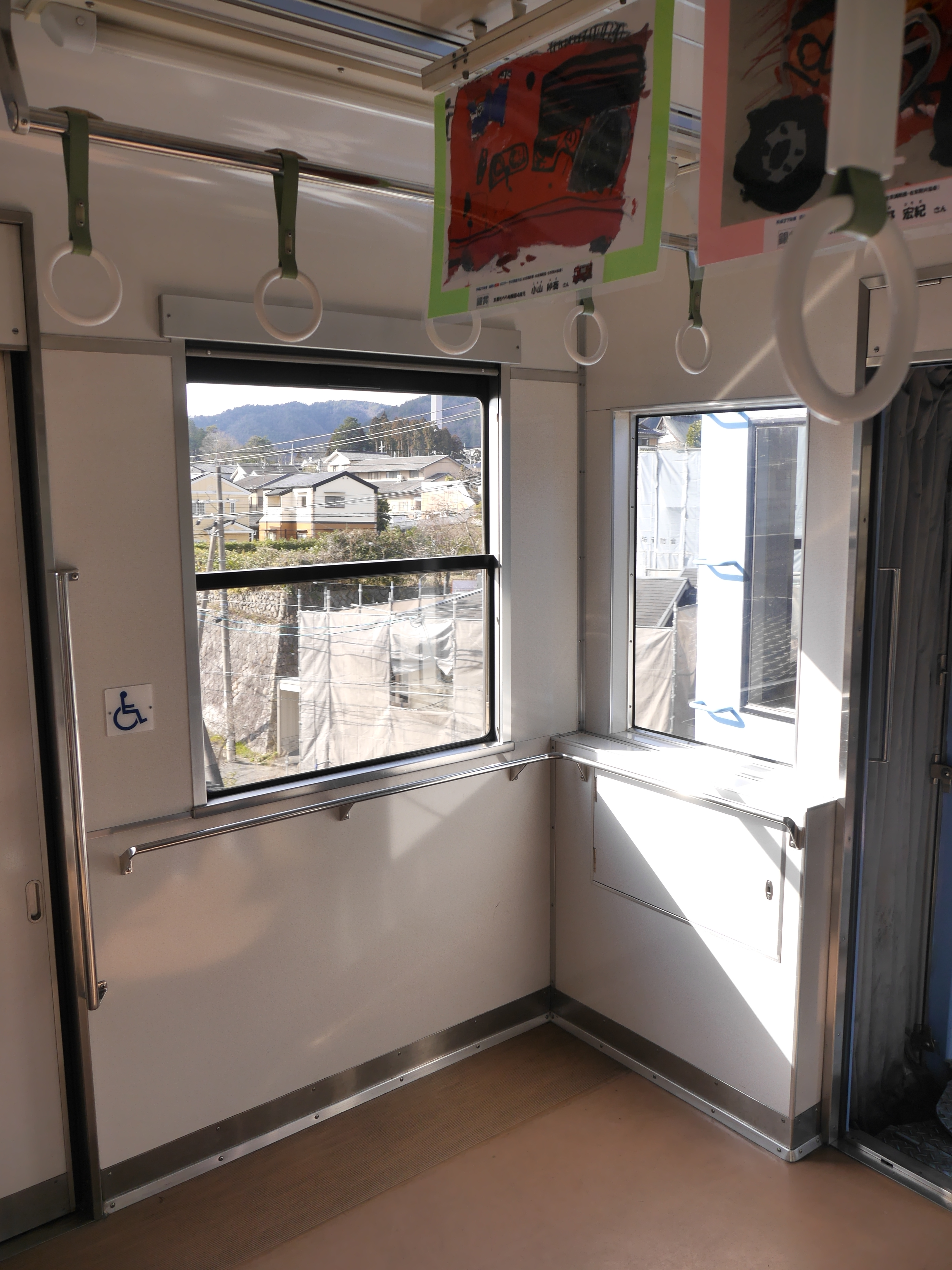 Wheelchair space on Eiden 815